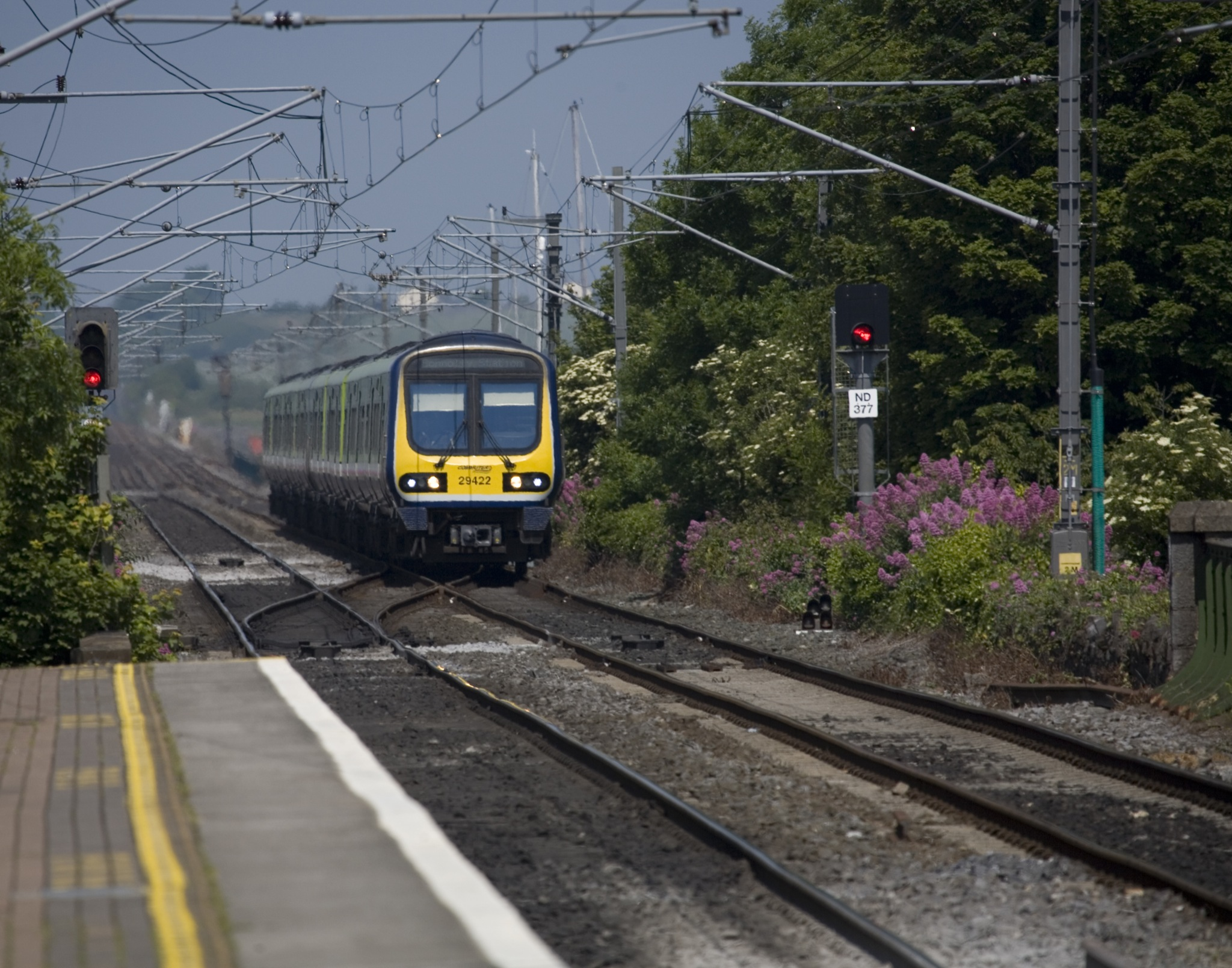 Malahide railway station